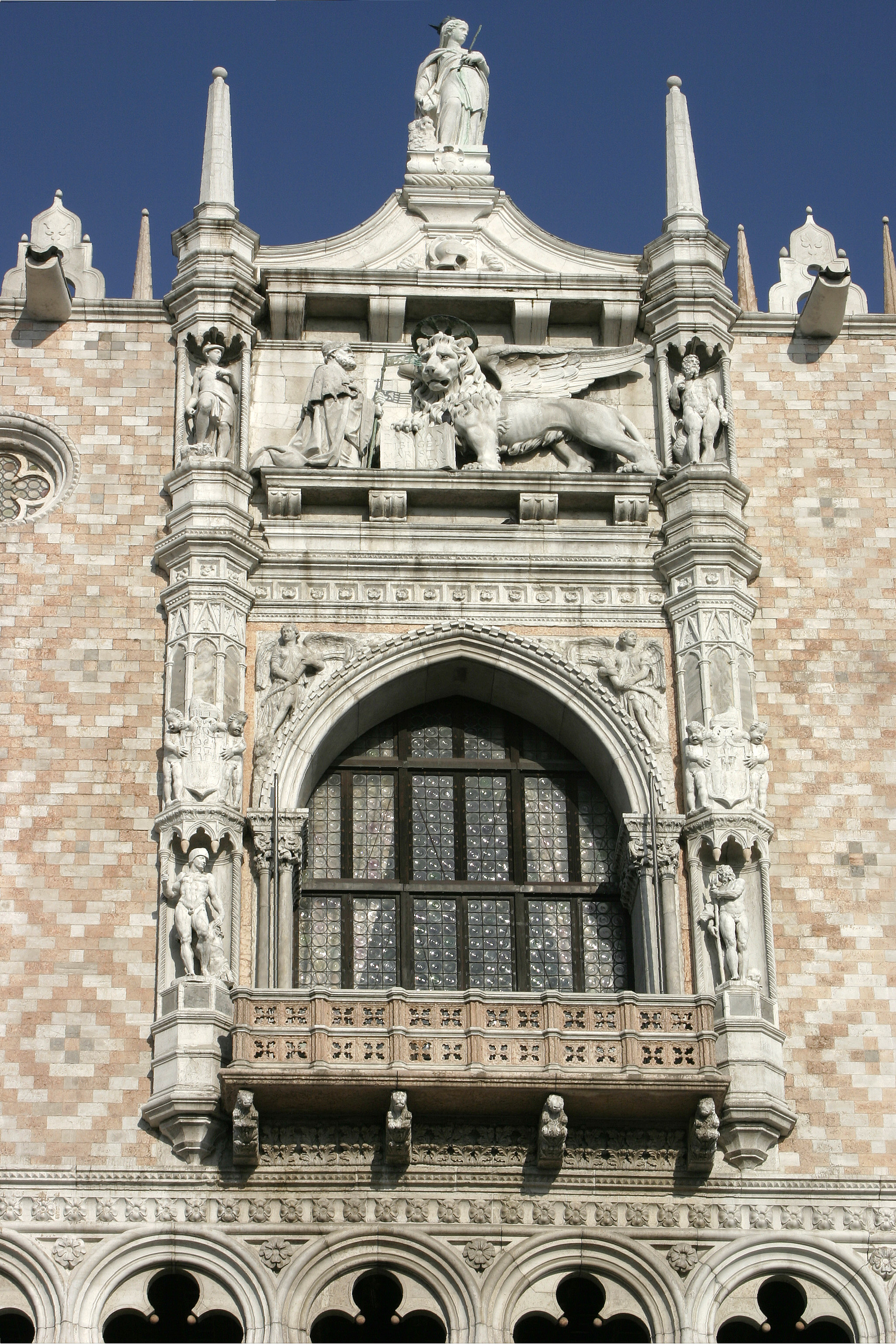 Venice – Doge’s Palace – Loggia on the Piazzetta